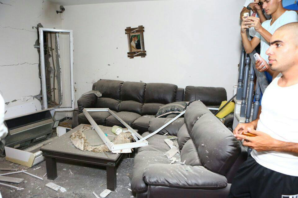 House in Beersheba hit by a Grad missile fired from the Gaza Strip, July 10, 2014